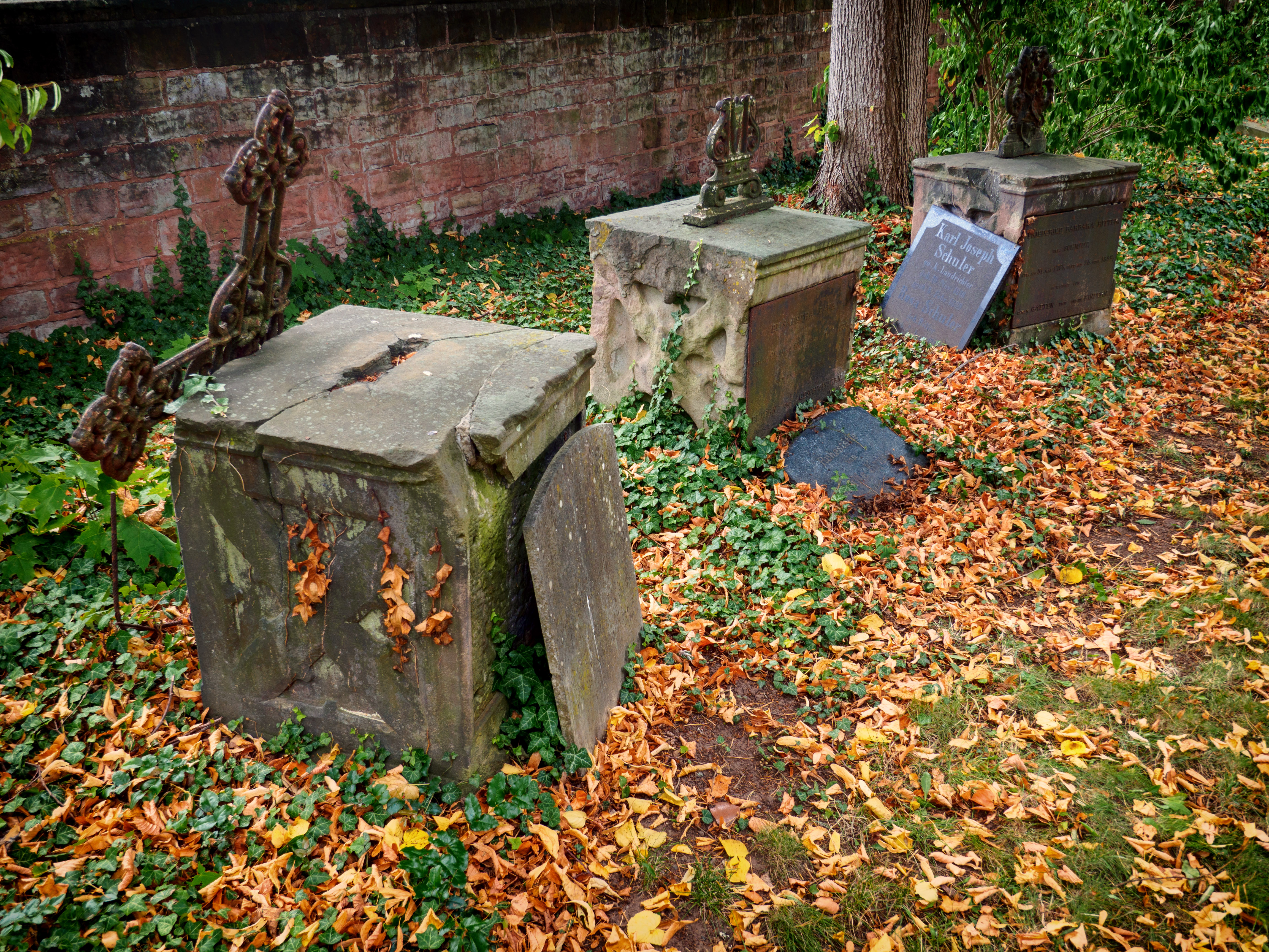 Grave of Georg Ritter (1795-1854) and his family,. It is located on the Main Cemetery in Zweibrücken